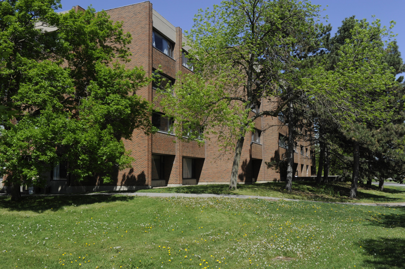 YorkU Dorm